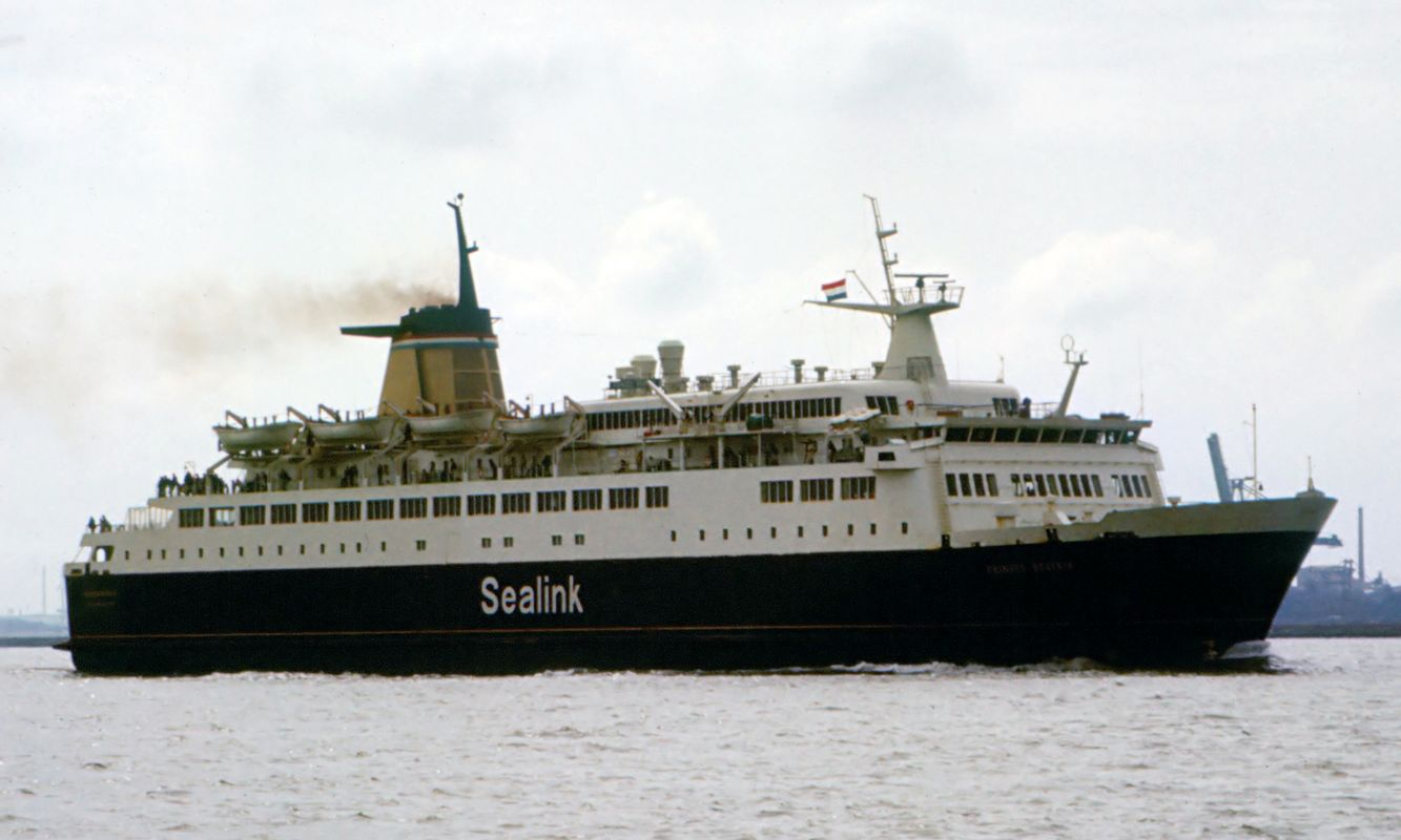 The ferry Prinses Beatrix at Hoek van Holland in August 1980.